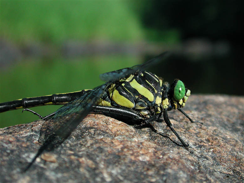 Dragonhunter (Hagenius brevistylus), St. Croix State Park, Minnesota